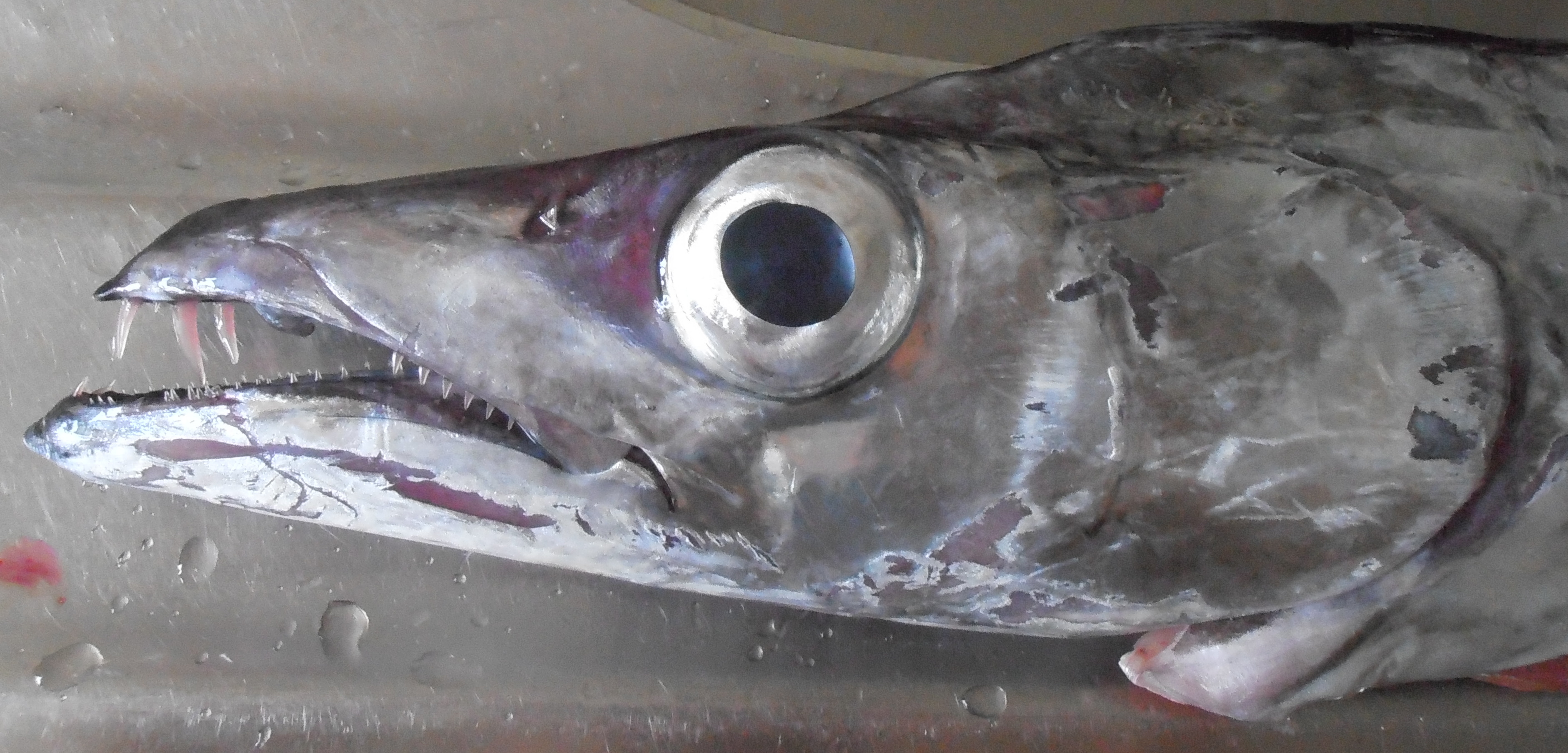 Head of Silver scabbardfish